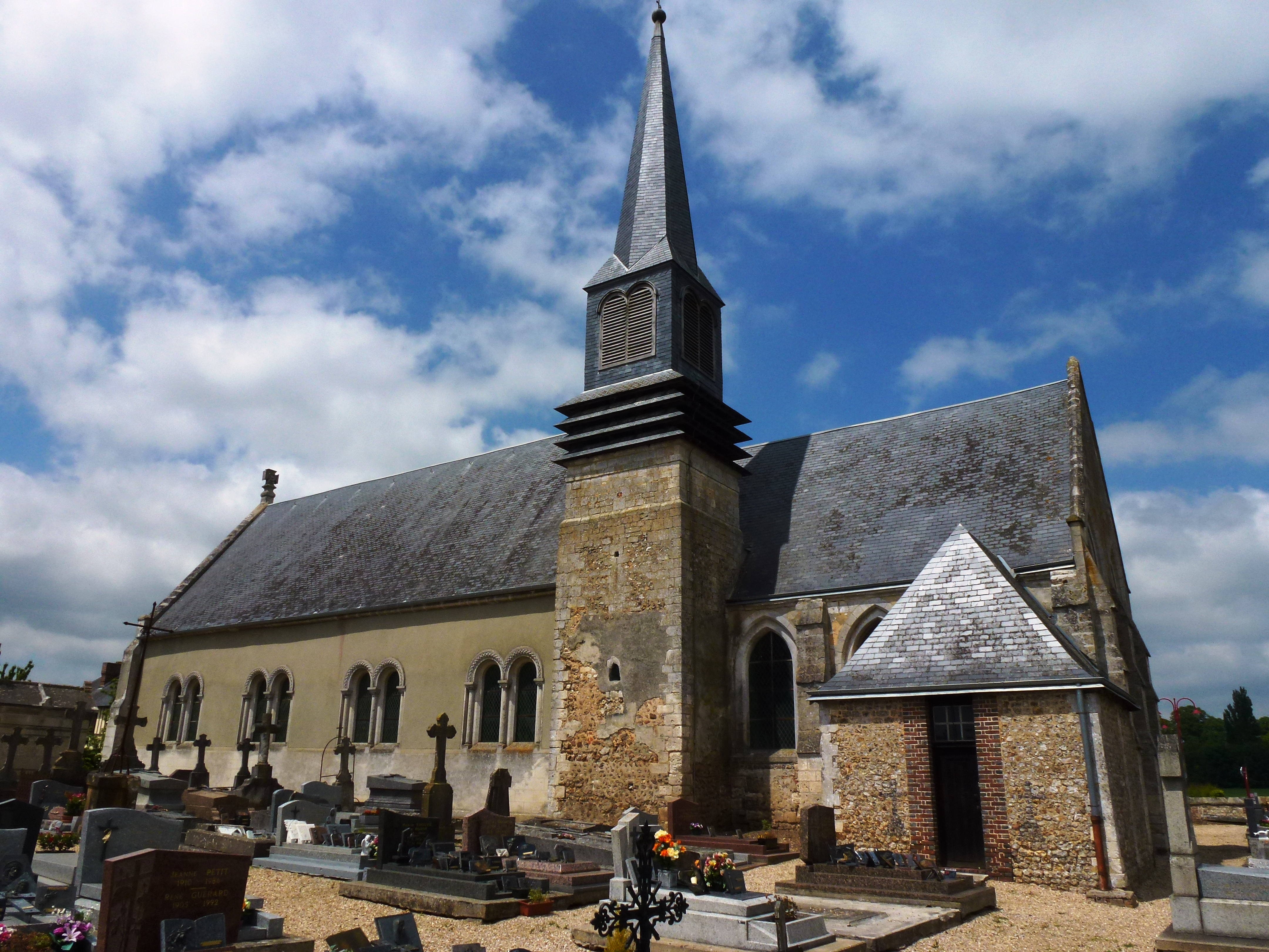 Carsix (Eure, Fr) : église Saint-Martin.